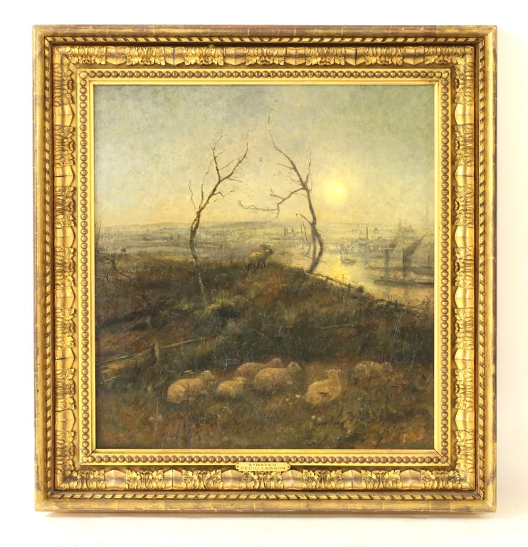 Painting by Cecil Gordon Lawson (1849–1882), 'Strayed, Winter moonlight scene with sheep and trees', oil-on-canvas, 1878 (26 x 24 inches). Other information Painting by Cecil Gordon Lawson (1849–1882), 'Strayed, Winter moonlight scene with sheep and trees', oil-on-canvas, 1878 (26 x 24 inches). Lord Battersea, (of Overstrand, near Cromer, Norfolk); Grosvenor Gallery, 1883; Jubilee Exhibition, Manchester, 1887; Royal Academy Winter Exhibition, 1901 (Lord Battersea's); Christie's (JS 297); Dreweatt's, 27 September 2006, lot 139, £3,400; Peter Nahum Sale (Dreweatt's, 24 September 2009, lot 51, unsold); Sworder's, March, 2014, (£1,550 (hammer)).